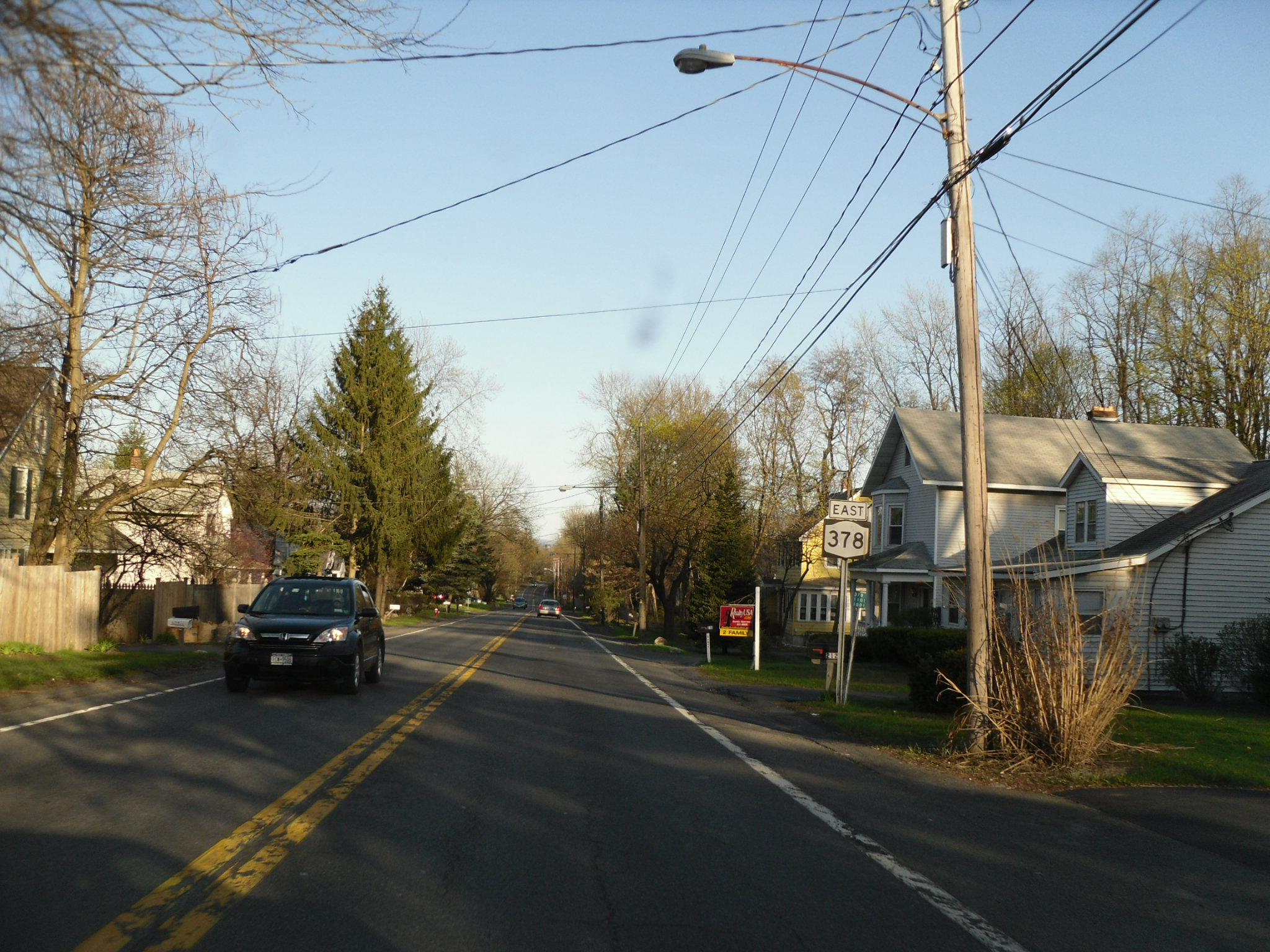 New York State Route 378 heading eastbound through Colonie.